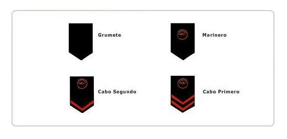 Peruvian Navy's sailors